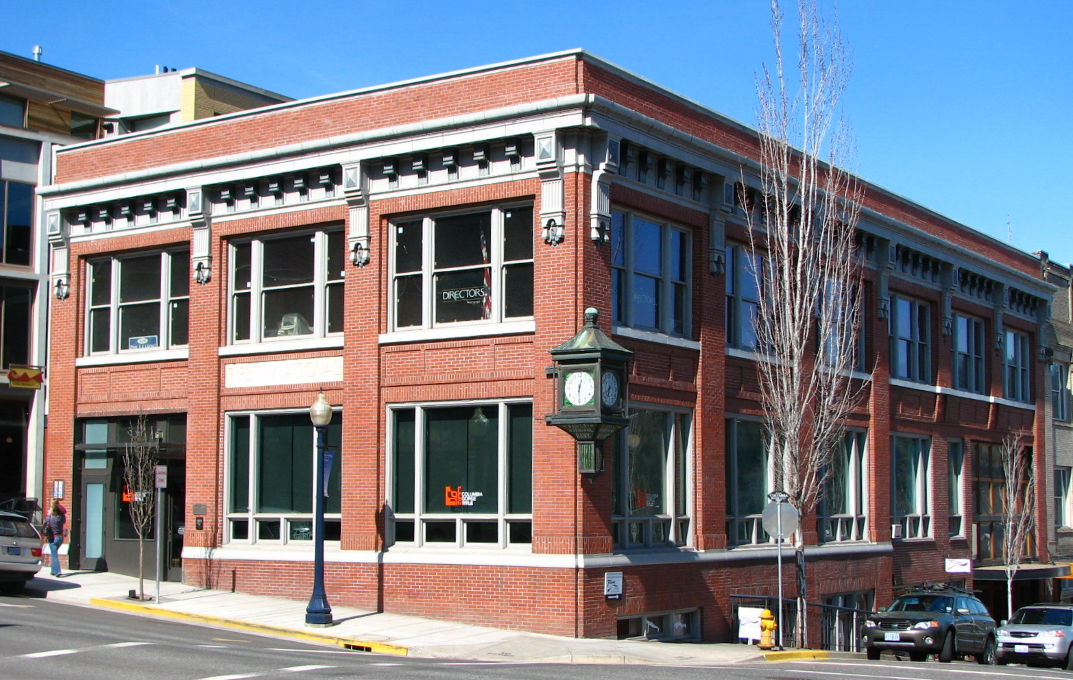 The historic First National Bank of Hood River (built 1910), located at 304 Oak Street in Hood River, Oregon, United States, is listed on the US National Register of Historic Places (NRHP). The building is no longer in use as a bank.